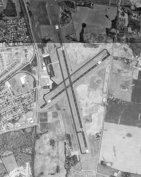 USGS digital orthophoto of Outlaw Field (Clarksville-Montgomery County Regional Airport) in Clarksville, Tennessee, United States